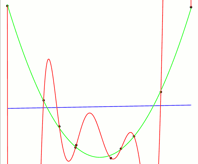 Interpolation polynomials (blue: degree 1, green: degree 2, red: degree 9) to ten given datapoints.